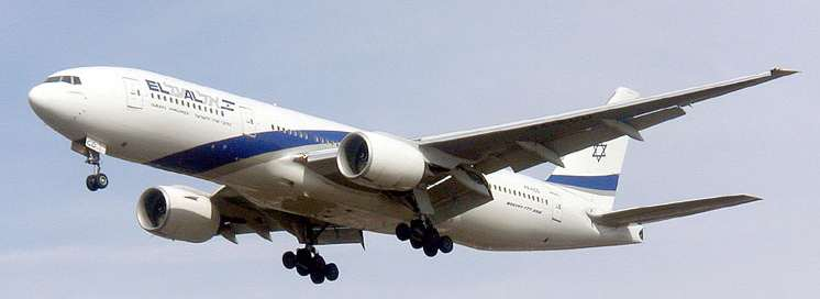 El Al Israel Airlines Boeing 777 in the latest (2003) colour scheme on the approach to London (Heathrow) Airport (UK).